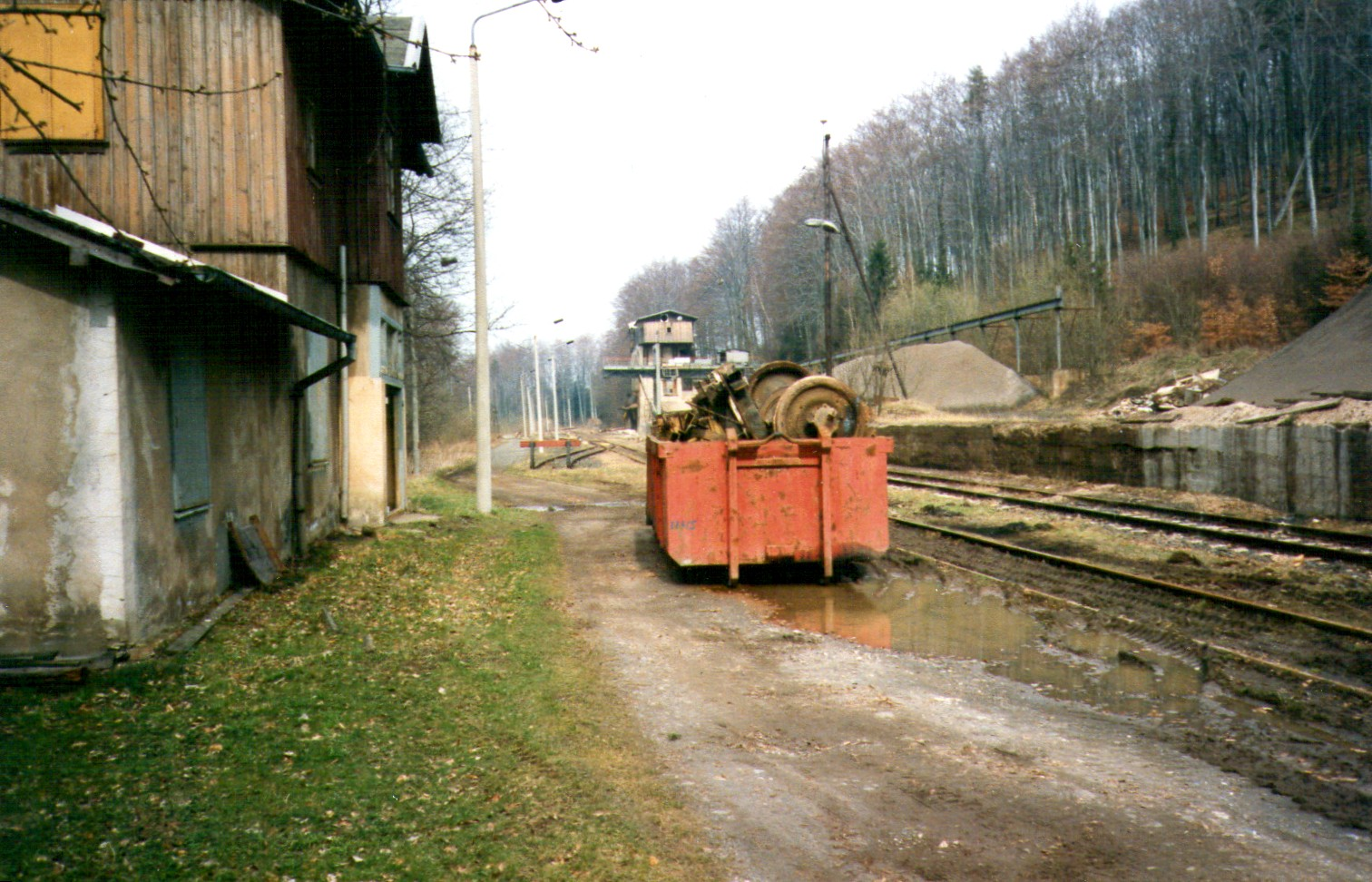 railway-station auwallenburg in thuringia